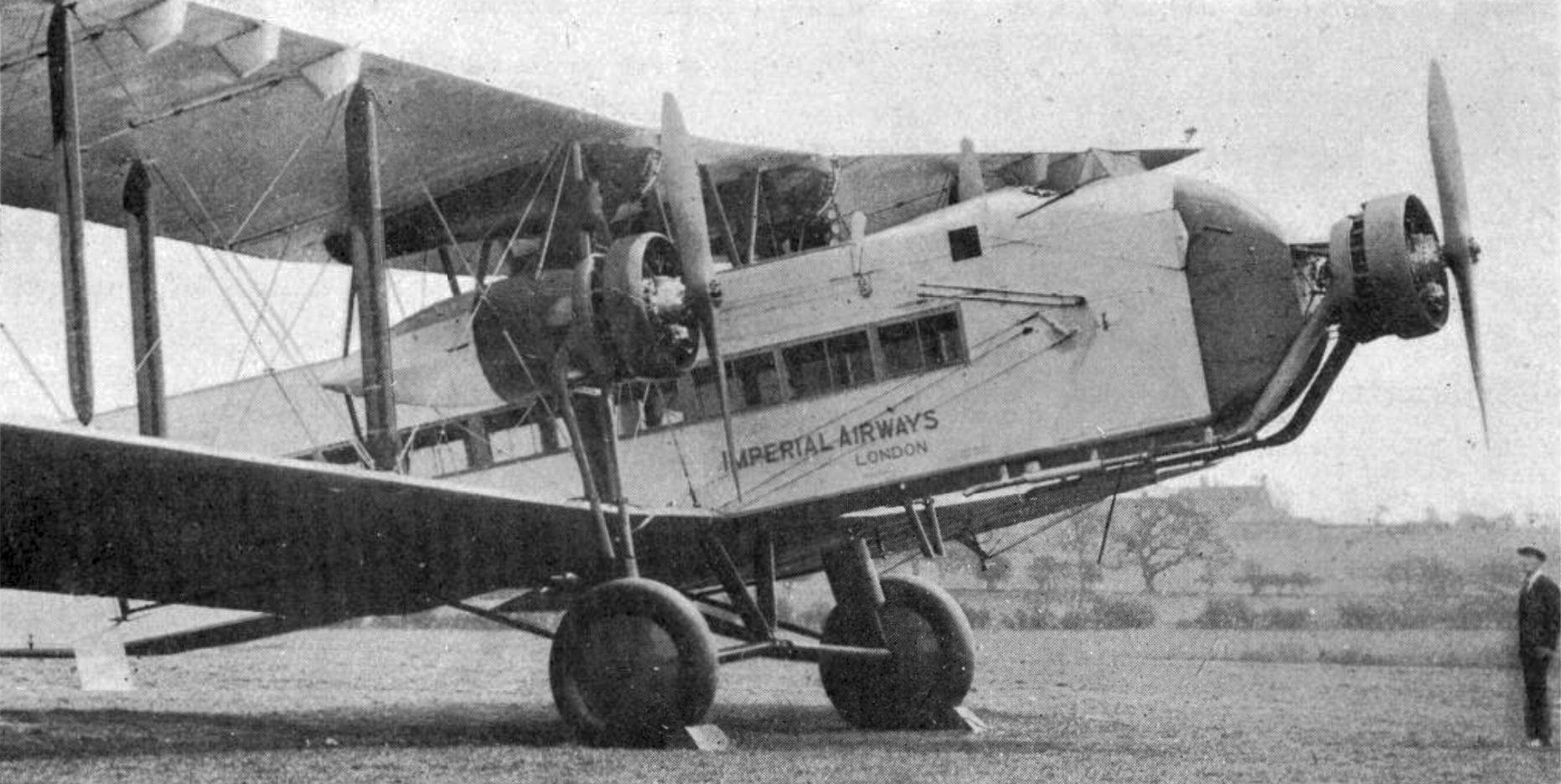 Armstrong Whitworth AW.154 Argosy fitted with Townend rings on the engines. Photo from L'Aéronautique July,1929